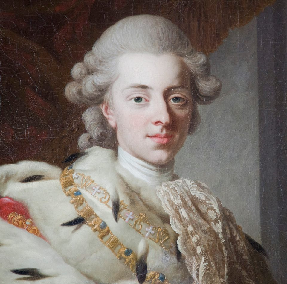 King Christian VII of Denmark and Norway